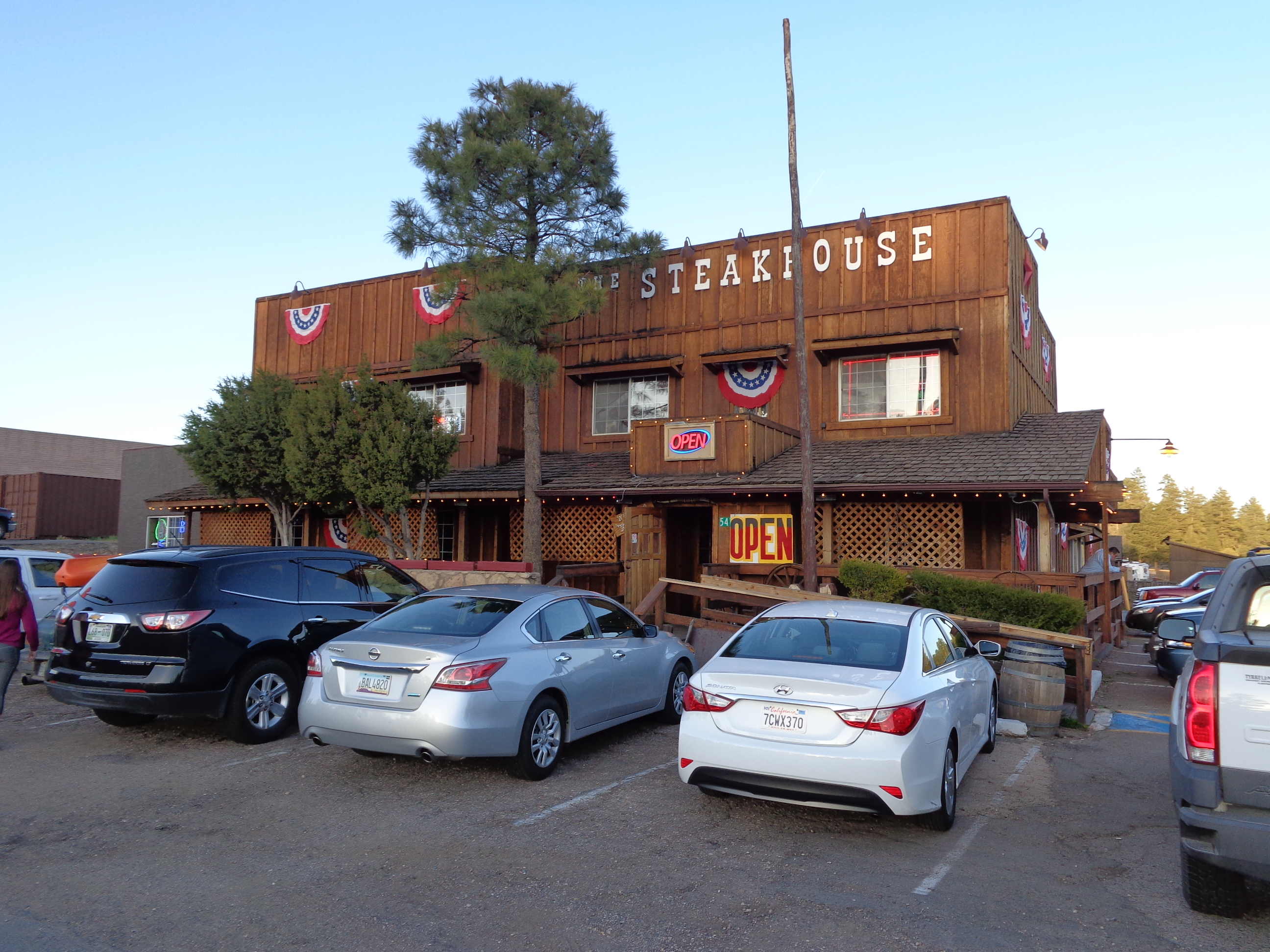 Restaurant The Steakhouse in Tusayan, Arizona, USA in May 2014.